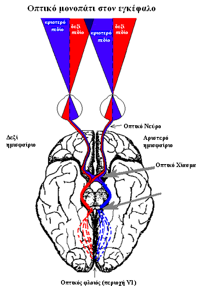 Visual pathway to the brain from beneath